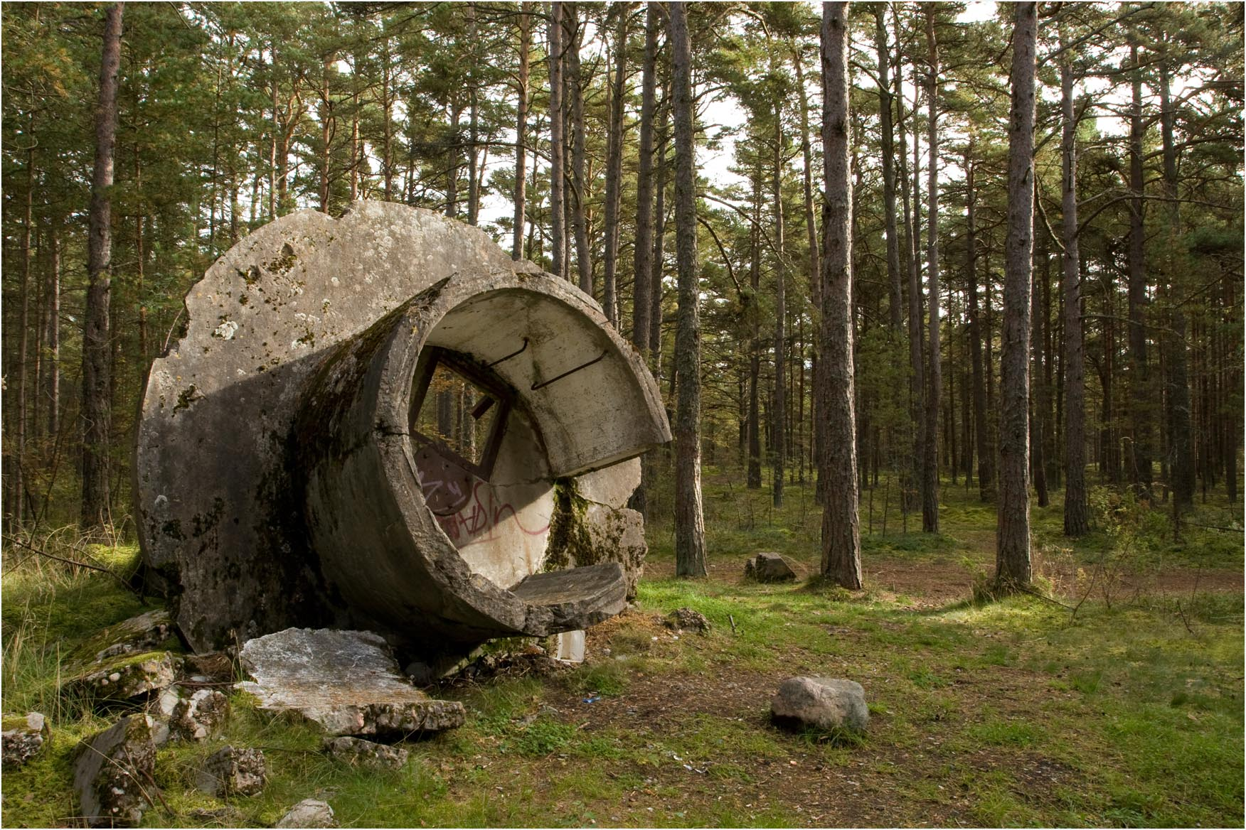 Ruins of Prangli SÜD light beacon